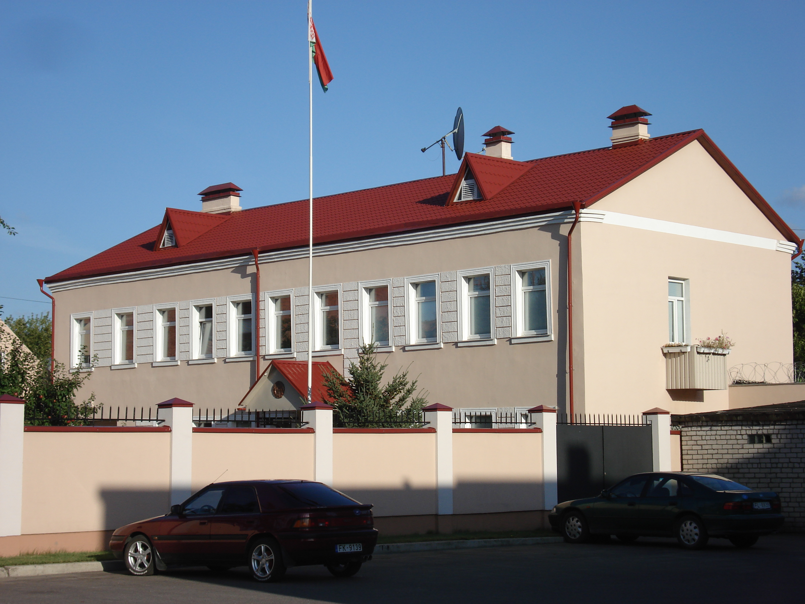 Consulate General of the Republic of Belarus in Daugavpils (Latvia)